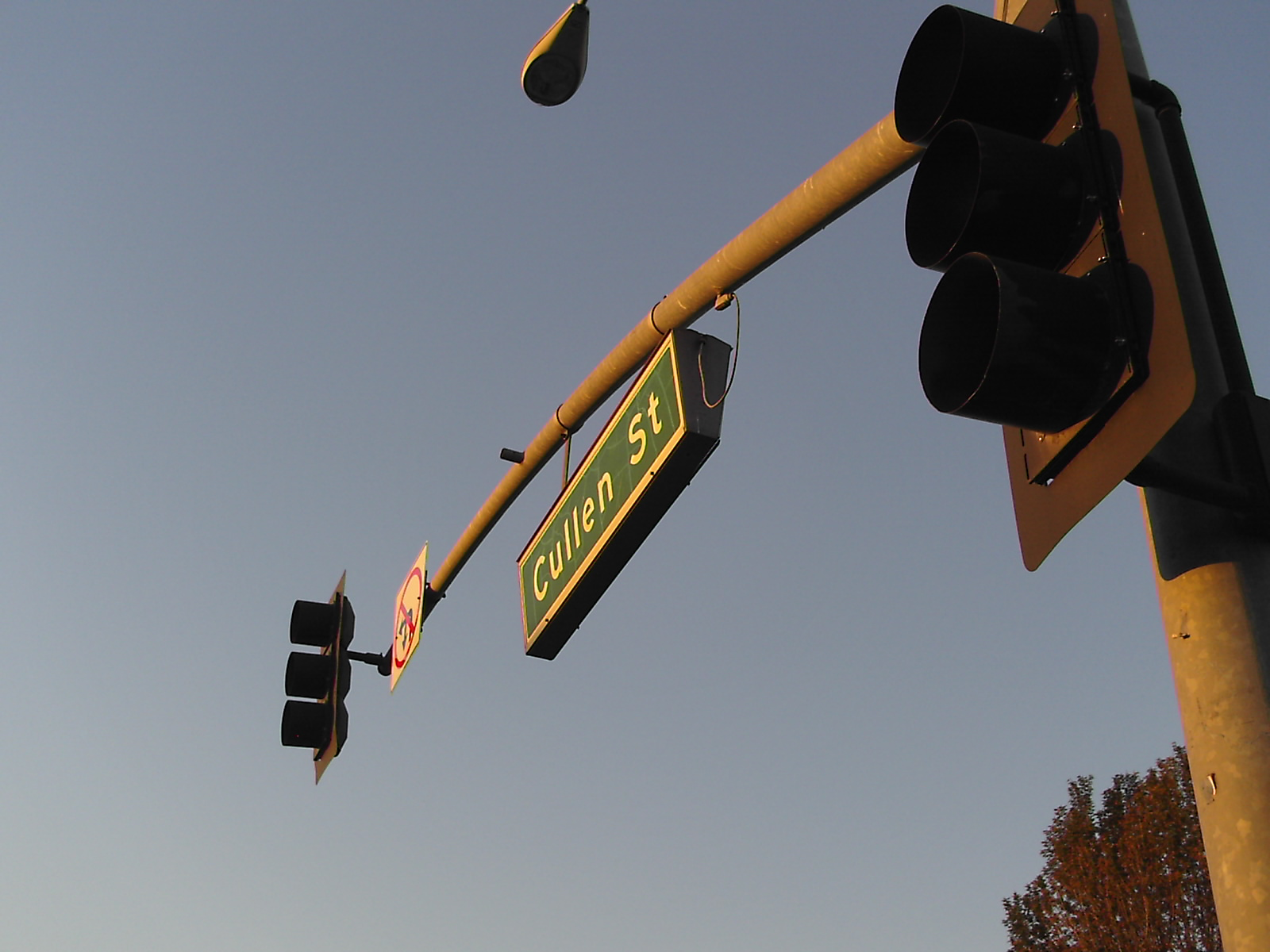 Cullen Street in Whittier, California